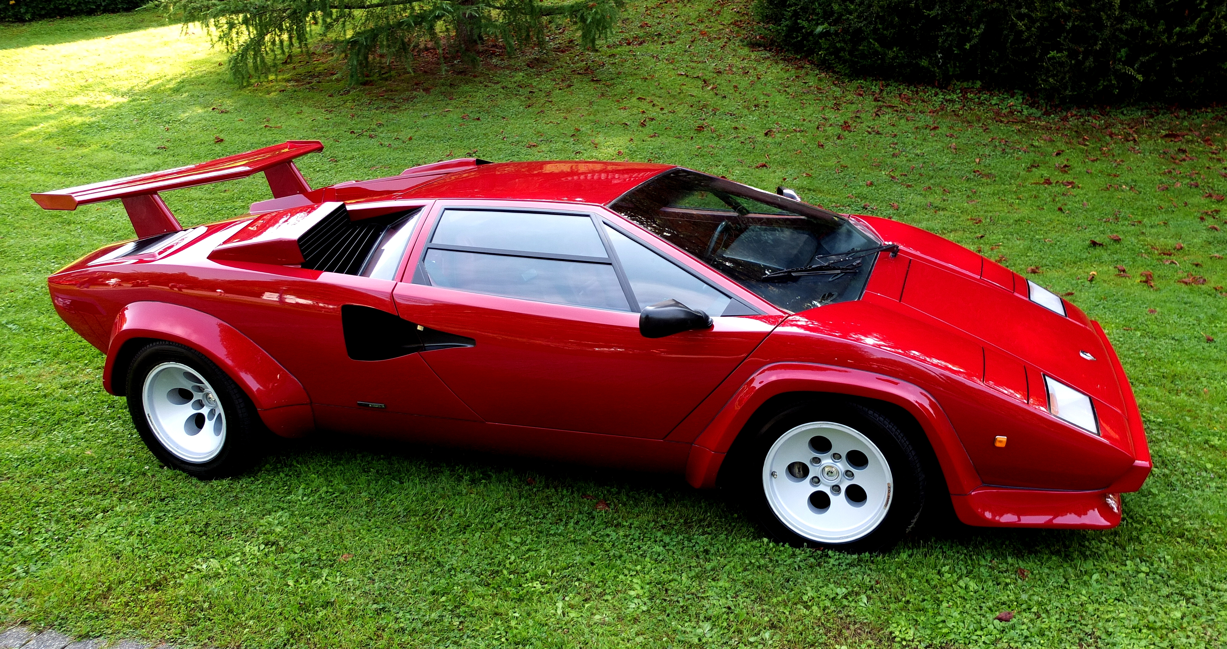 Lamborghini Countach LP 5000S (built 1983), seen at Concours d'Élégance in Mondorf-les-Bains, Luxembourg.